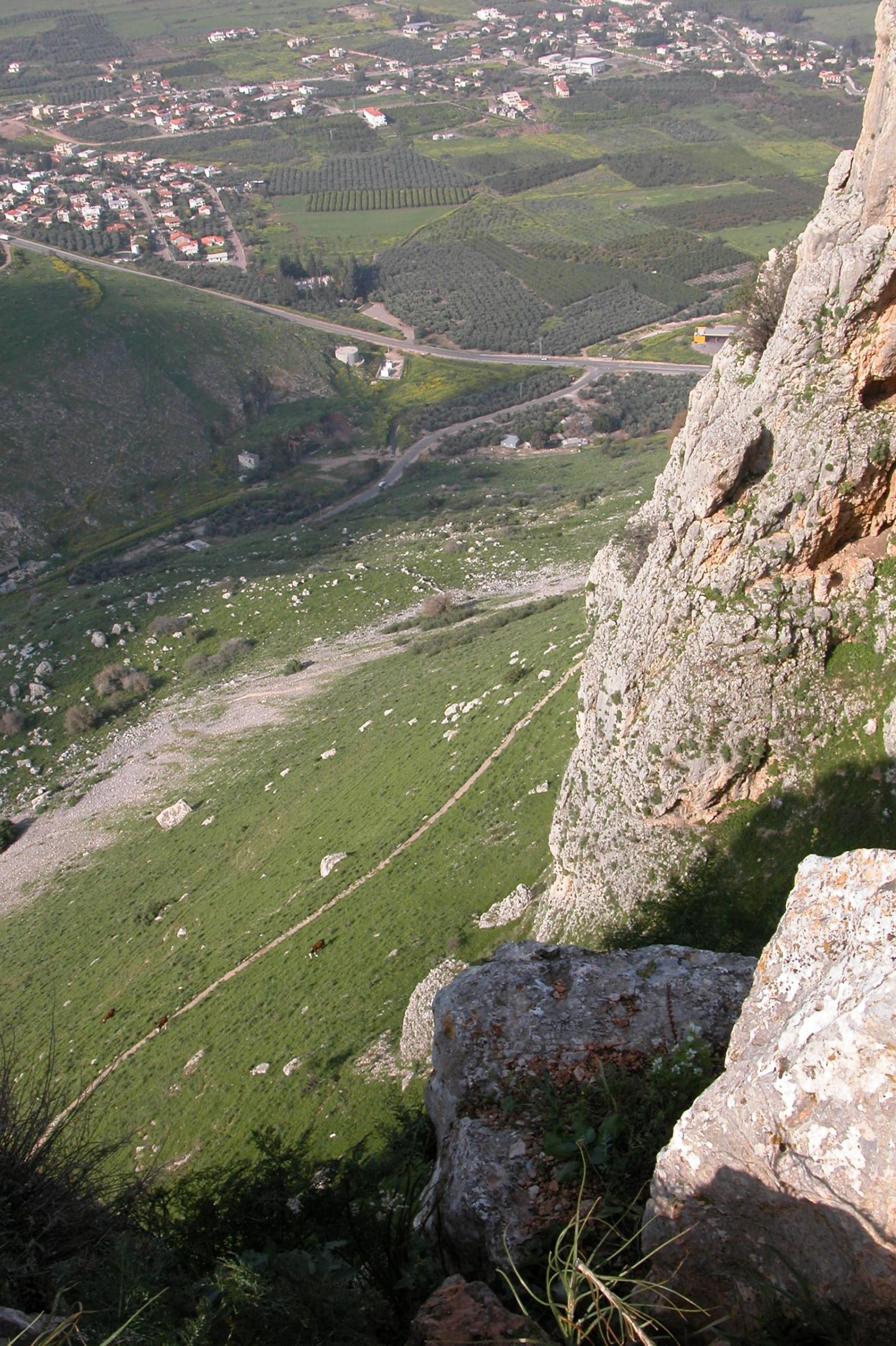 panorama from Mount Arbel